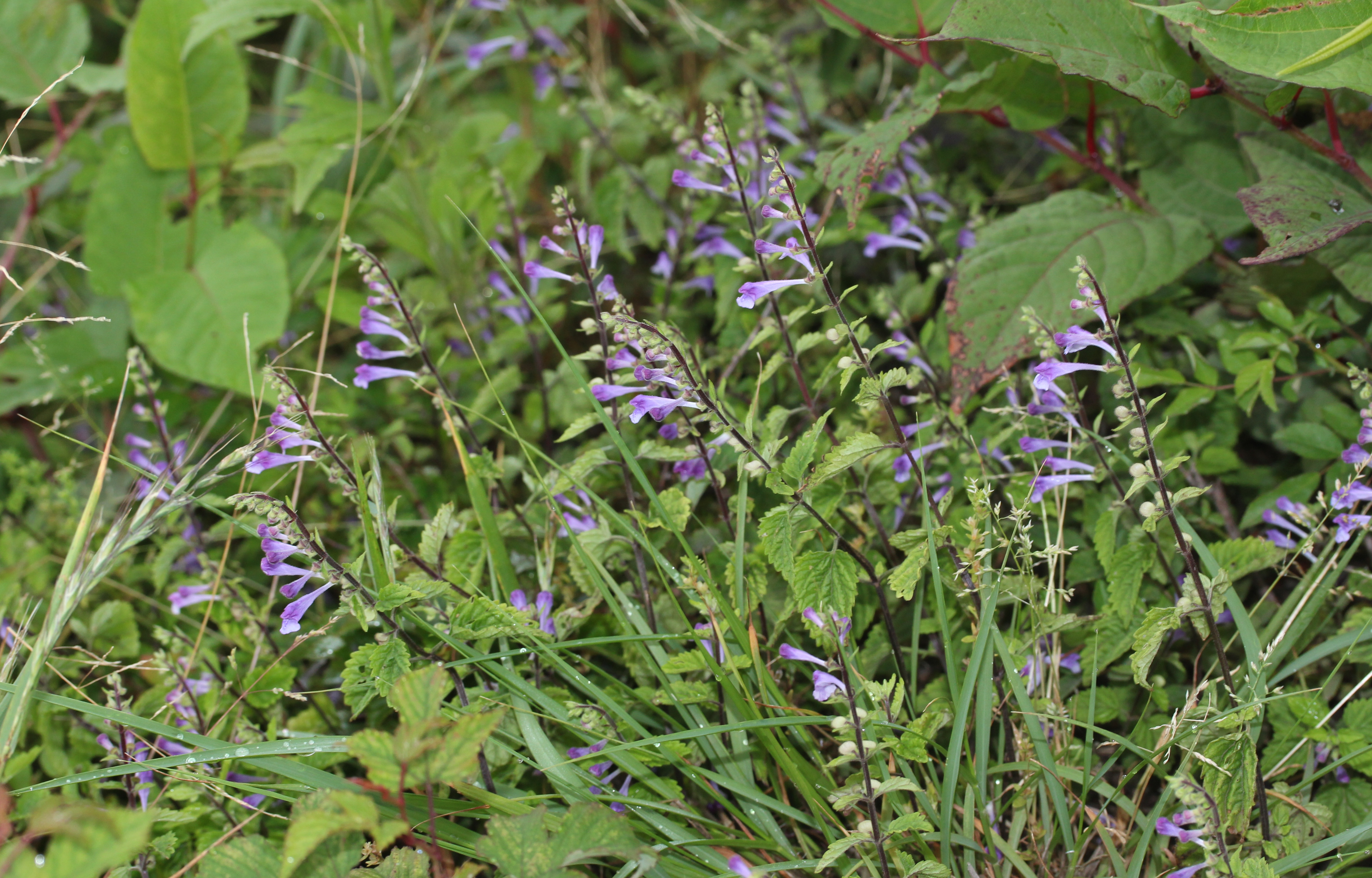 Scutellaria pekinensis var. transitra in Mount Ibuki, Maibara, Shiga prefecture, Japan.